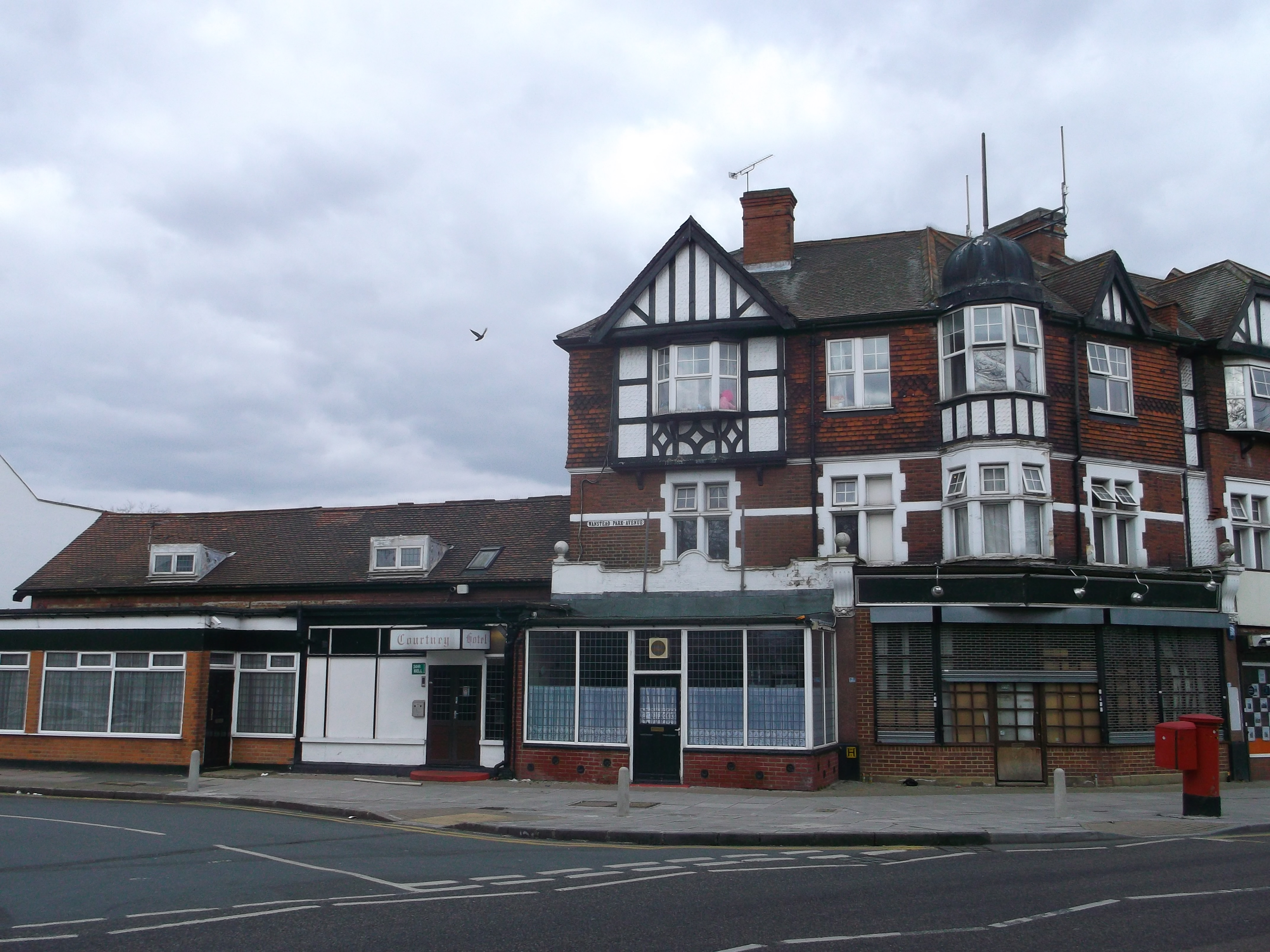 Courtney Hotel, Aldersbrook